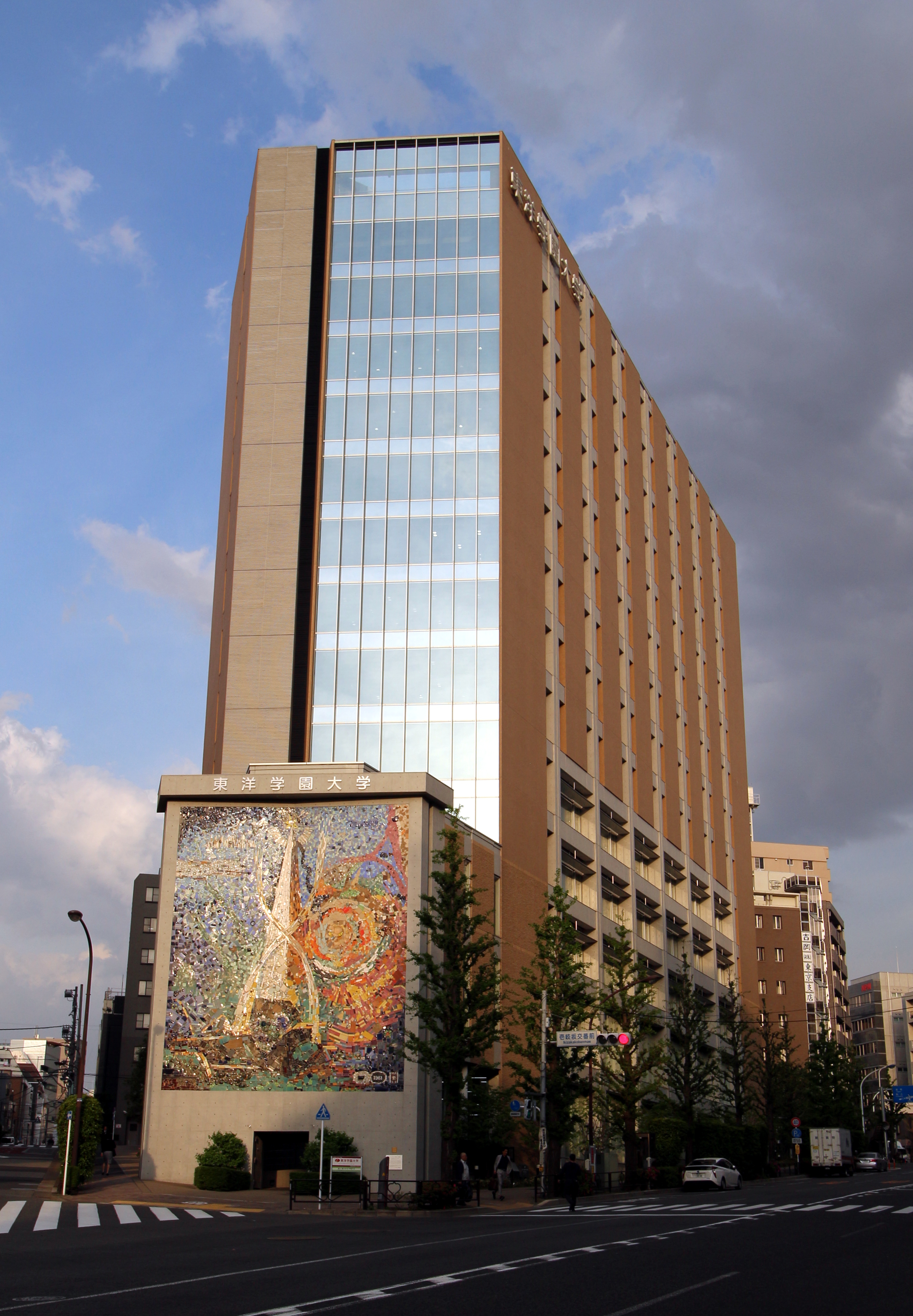 Toyo Gakuen University in Bunkyo-ko, Tokyo.